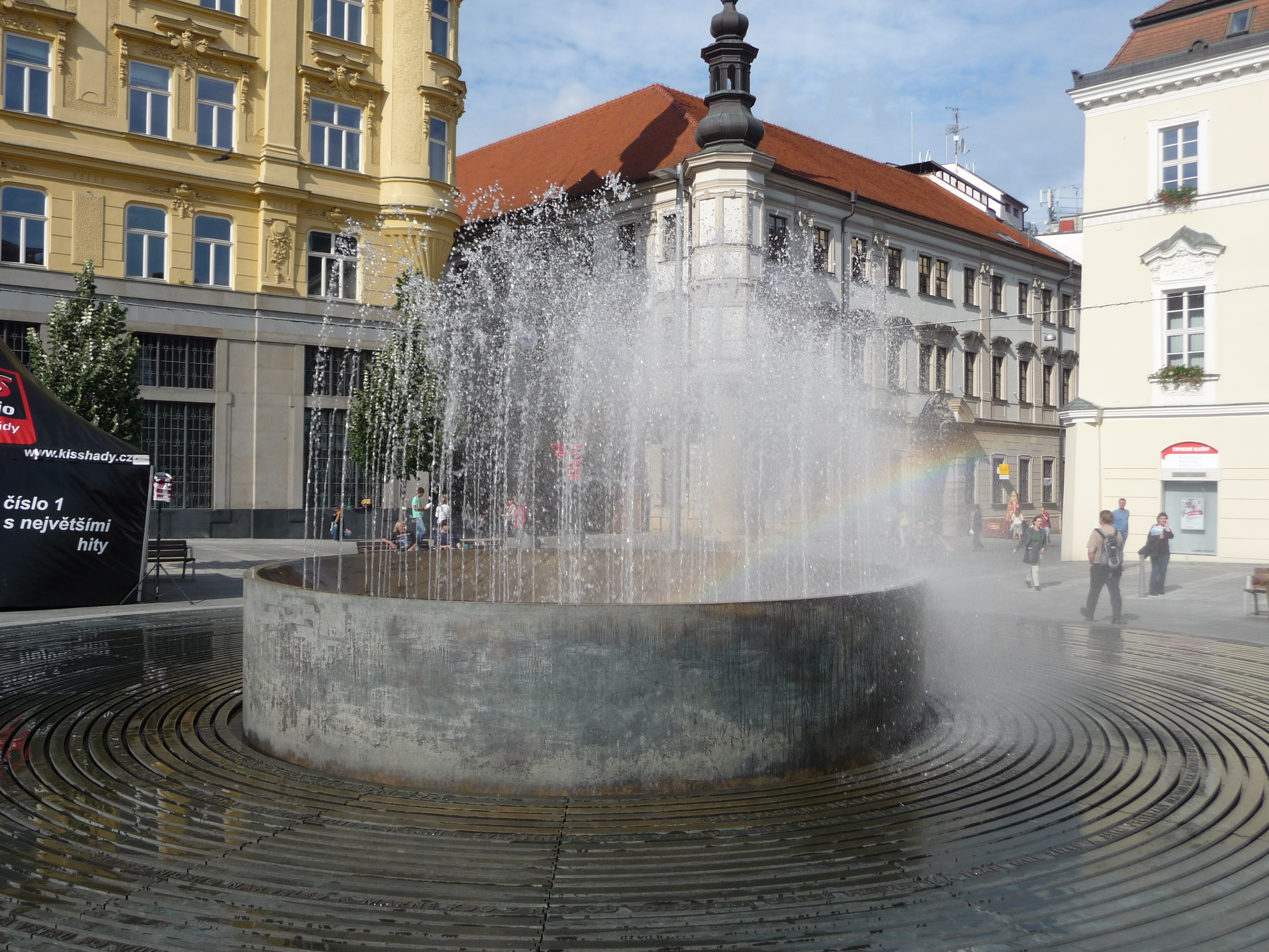 Sountain, Freedom Square (Náměstí Svobody), Brno